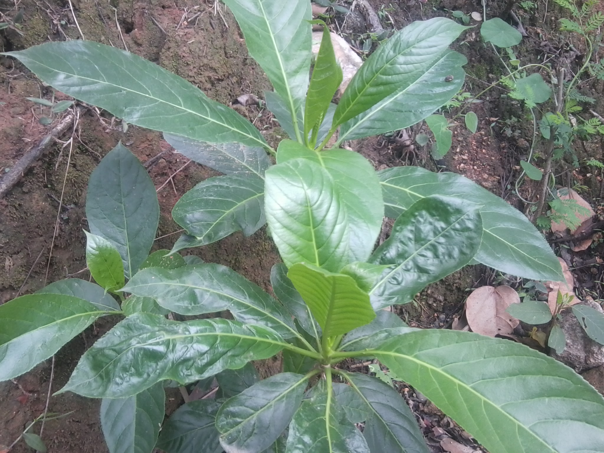 Wrightia antidysenterica in Nepal.